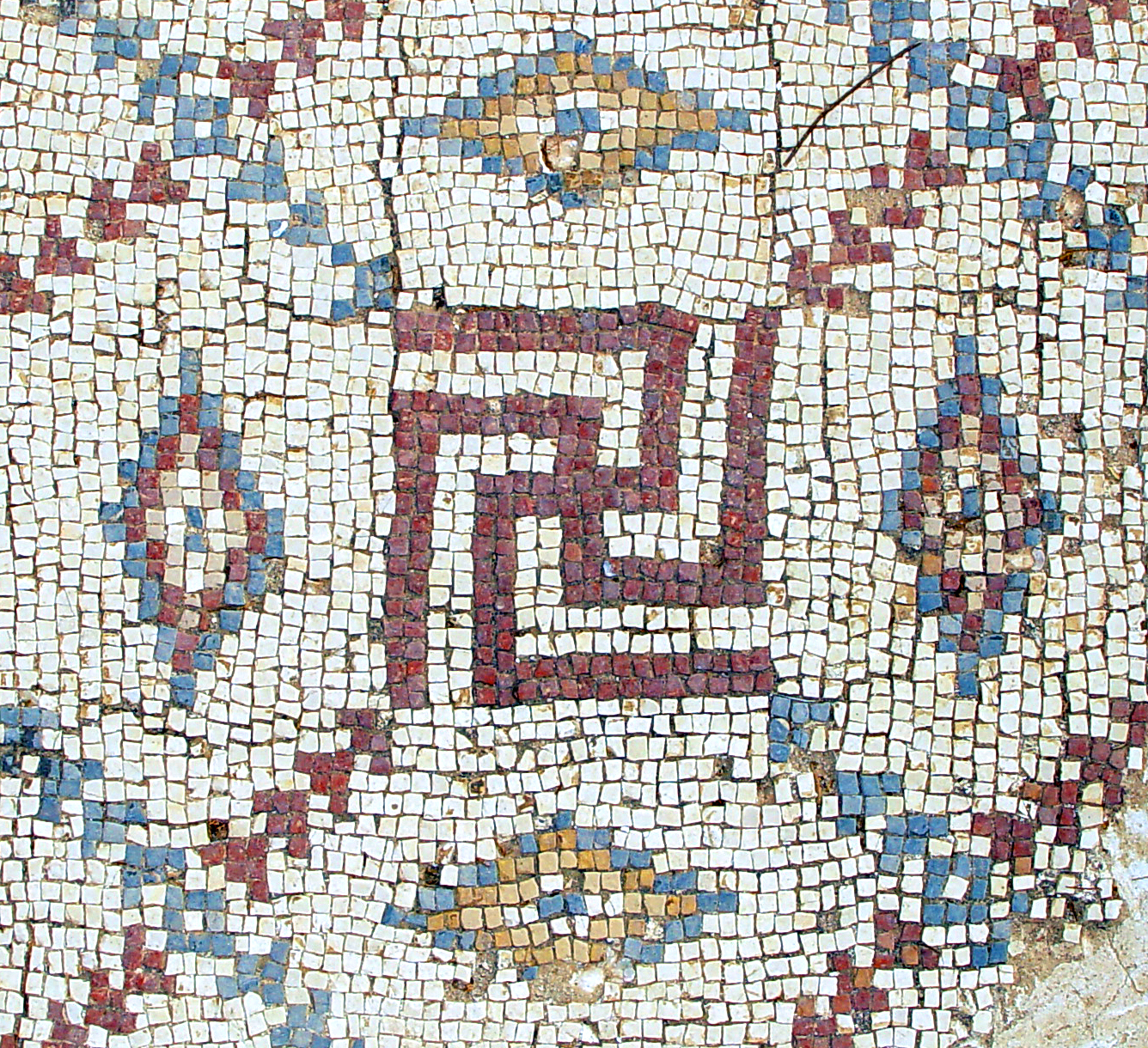 Mosaic swastika in excavated Byzantine(?) church in Shavei Tzion (Israel)